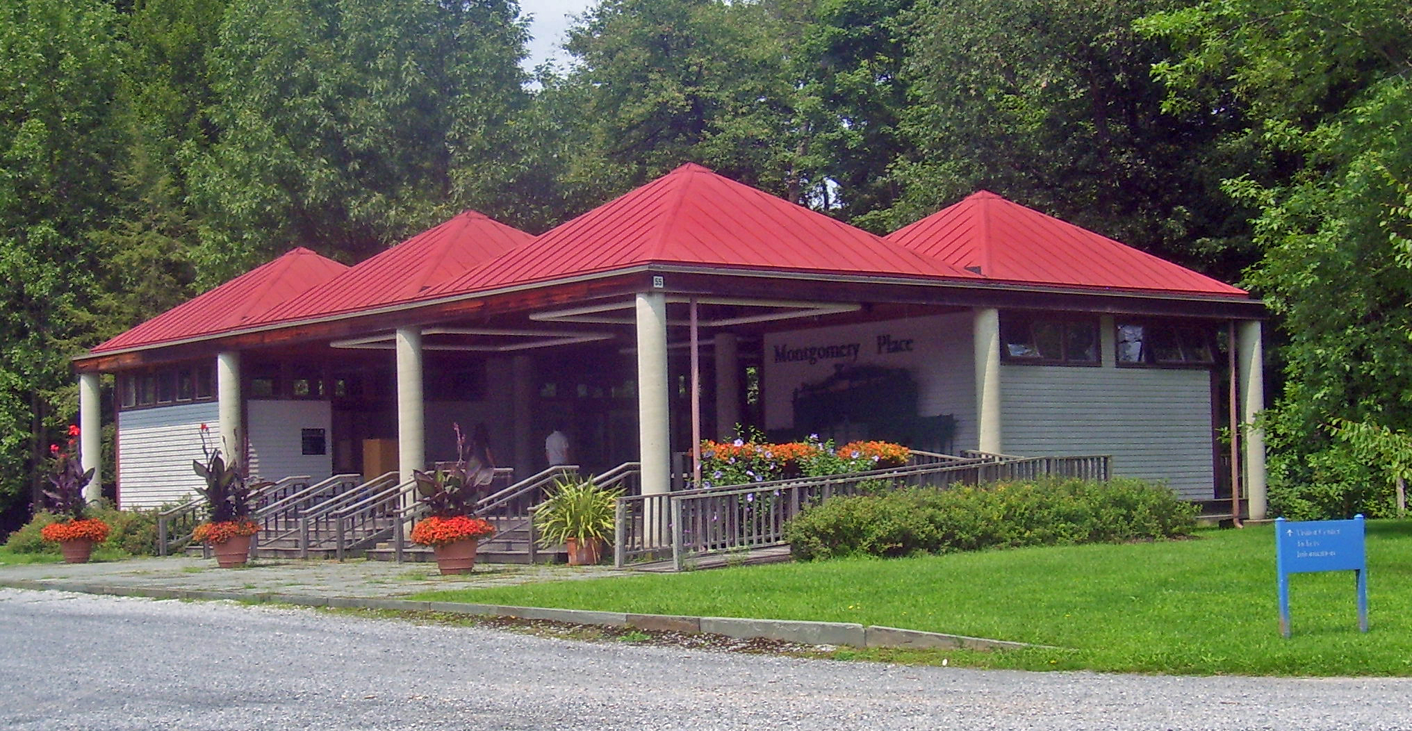 Visitors' center at Montgomery Place, Annandale-on-Hudson, NY, USA